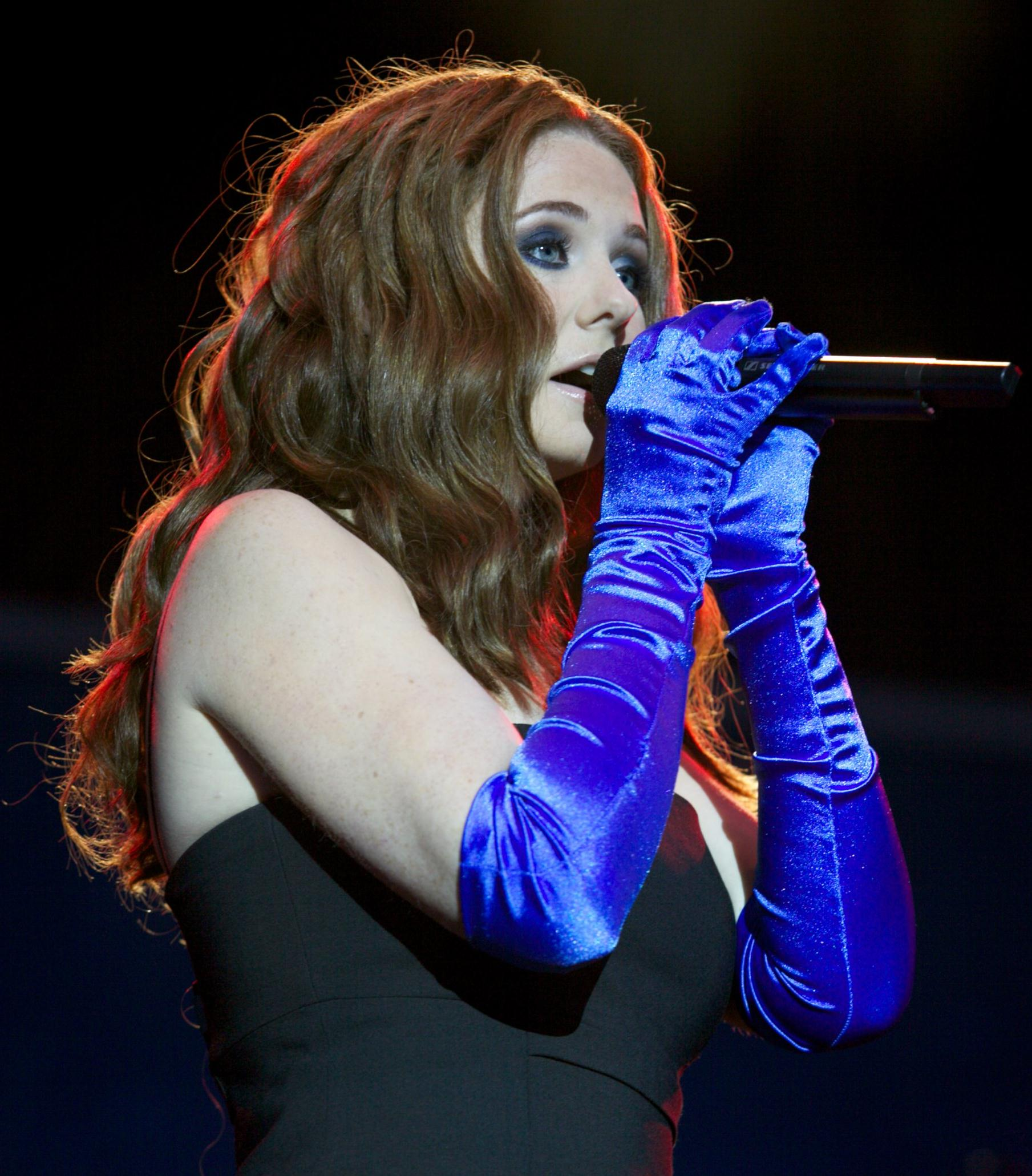 Lena Katina in Club Trovador, Los Angeles